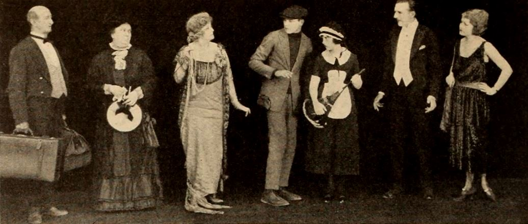 Still from the American comedy film 45 Minutes from Broadway (1920) with William Courtright, Eugenie Besserer, Charles Ray, Dorothy Devore, and Hazel Howell (1898–1965), the other actors are not identified, on page 52 of the August 28, 1920 Exhibitors Herald.